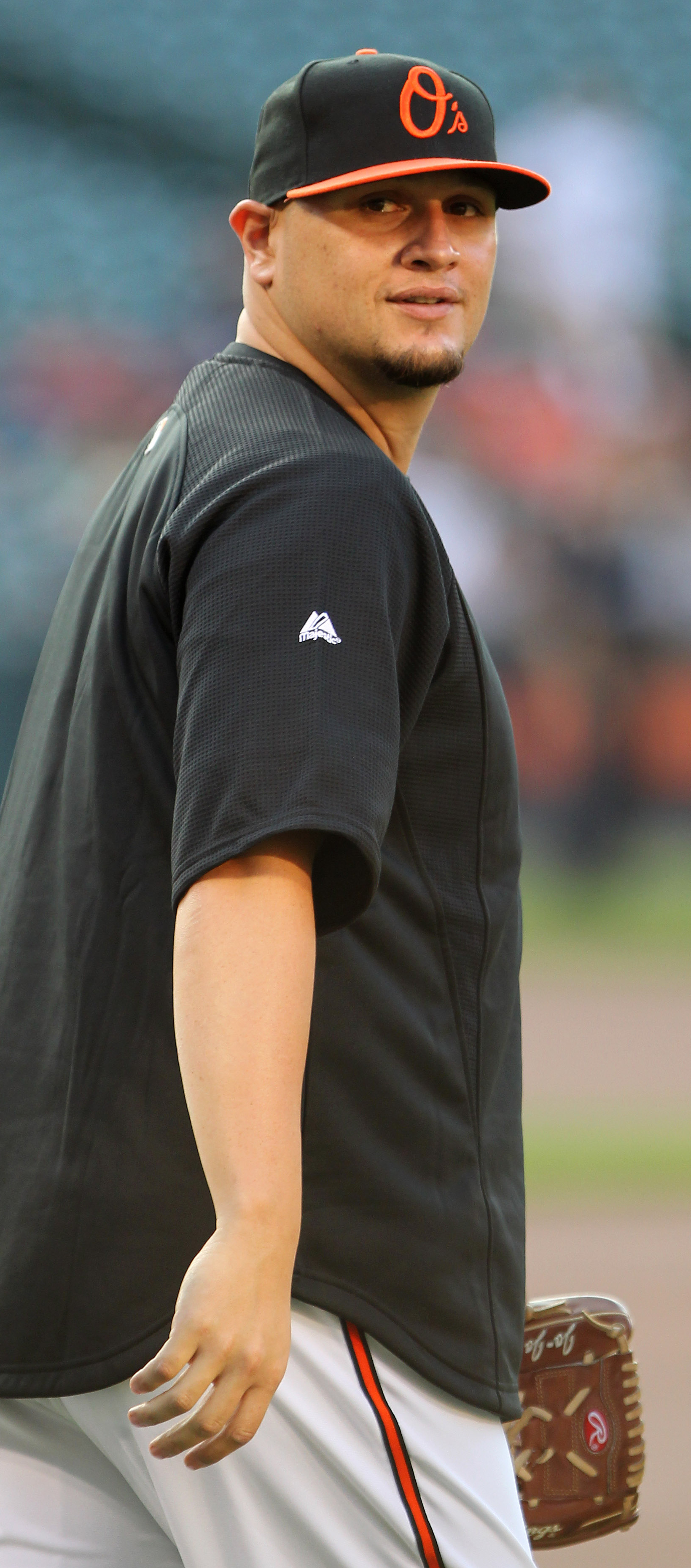 Jo-Jo Reyes